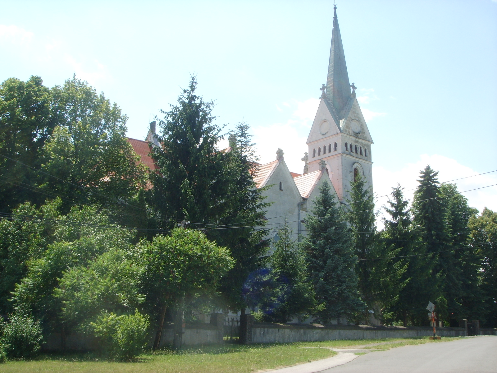 Roman catholic church in Parchovany